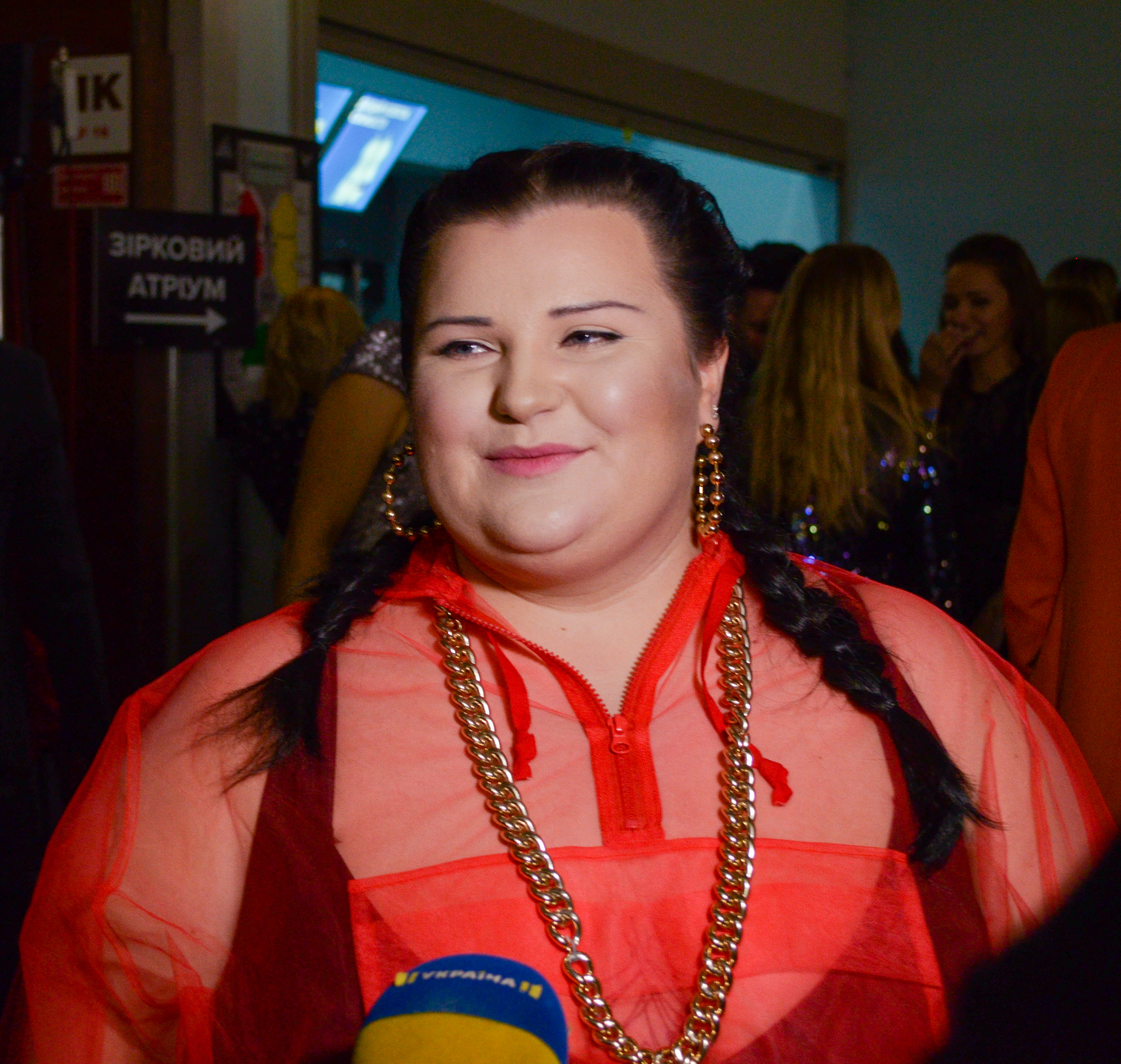 M1 Music Awards 2019, Kyiv, Palace of Sports, November 30, 2019.